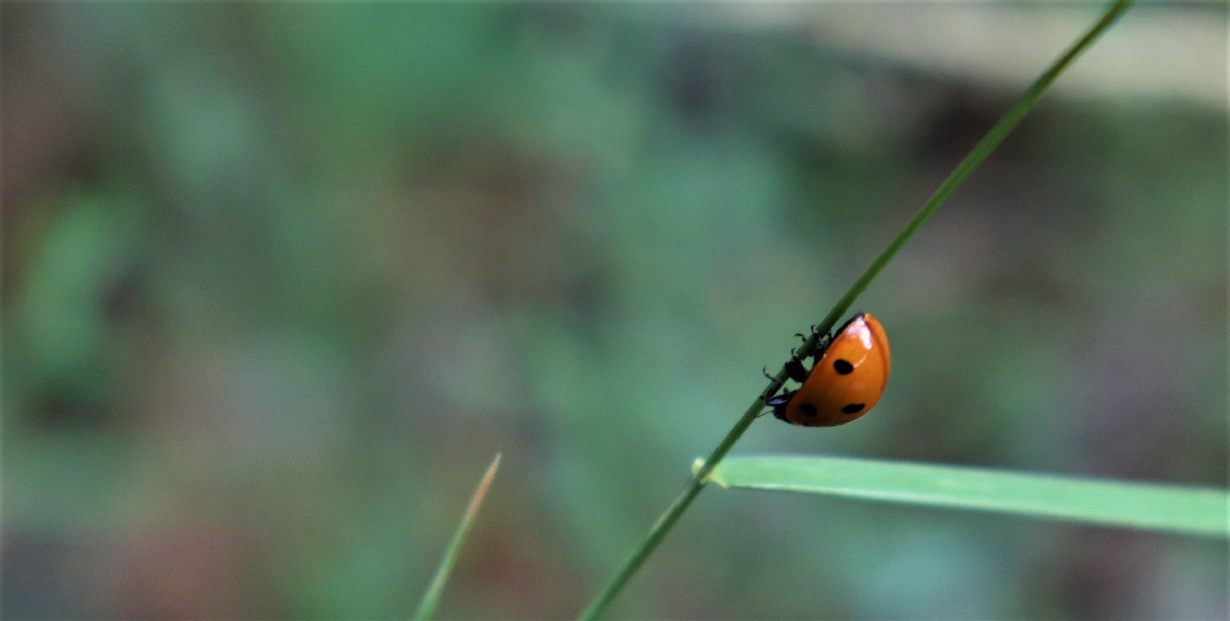 Ladybird on grass